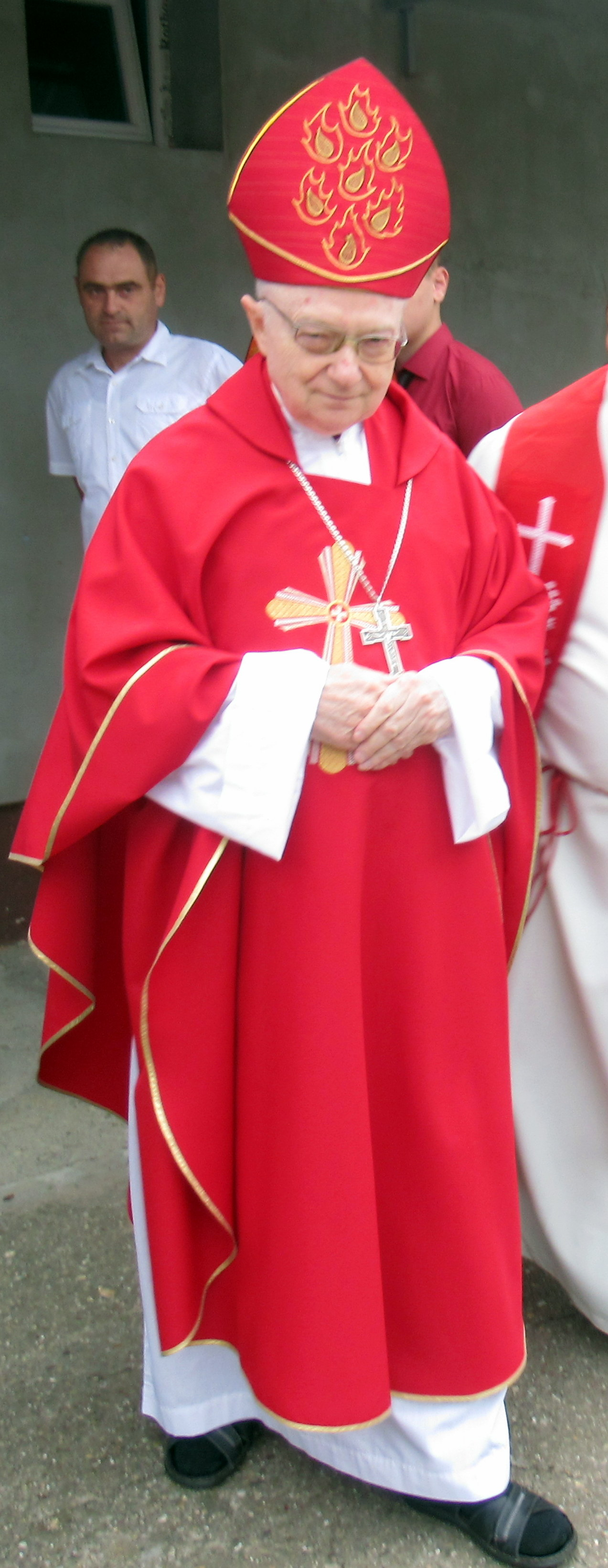 Bishop Martin Roos in Mužlja on 12th July 2020